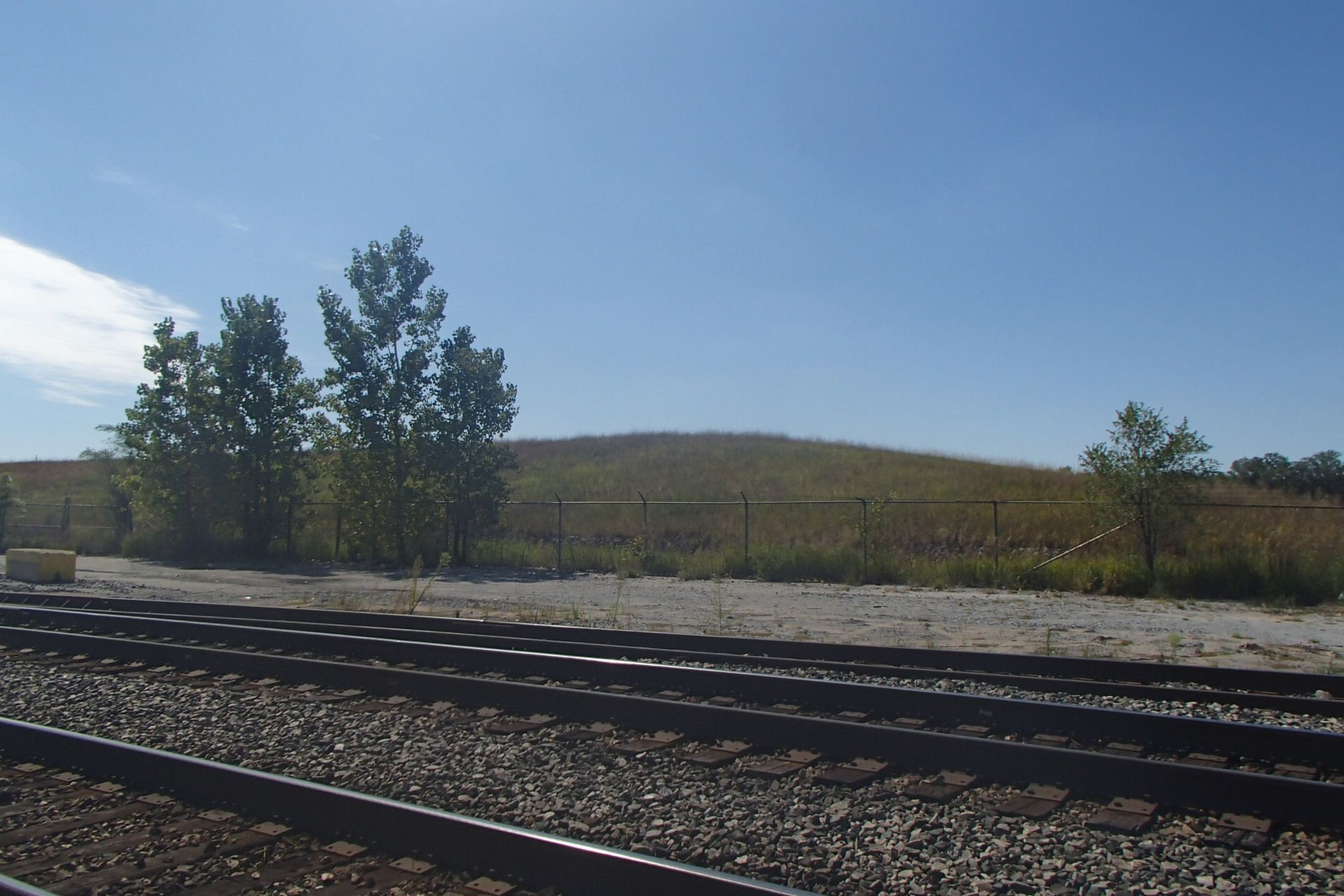 Former site of the USS Lead smelter, now a Superfund site, immediately north of the Grand Calumet River along Kennedy Avenue in East Chicago, Indiana. The portion of the site shown is the Corrective Action Management Unit (CAMU), where the lead-containing wastes from the smelter were consolidated after the smelter itself was demolished. The lead contamination in the surrounding residential neighborhood is still being remediated. [1]